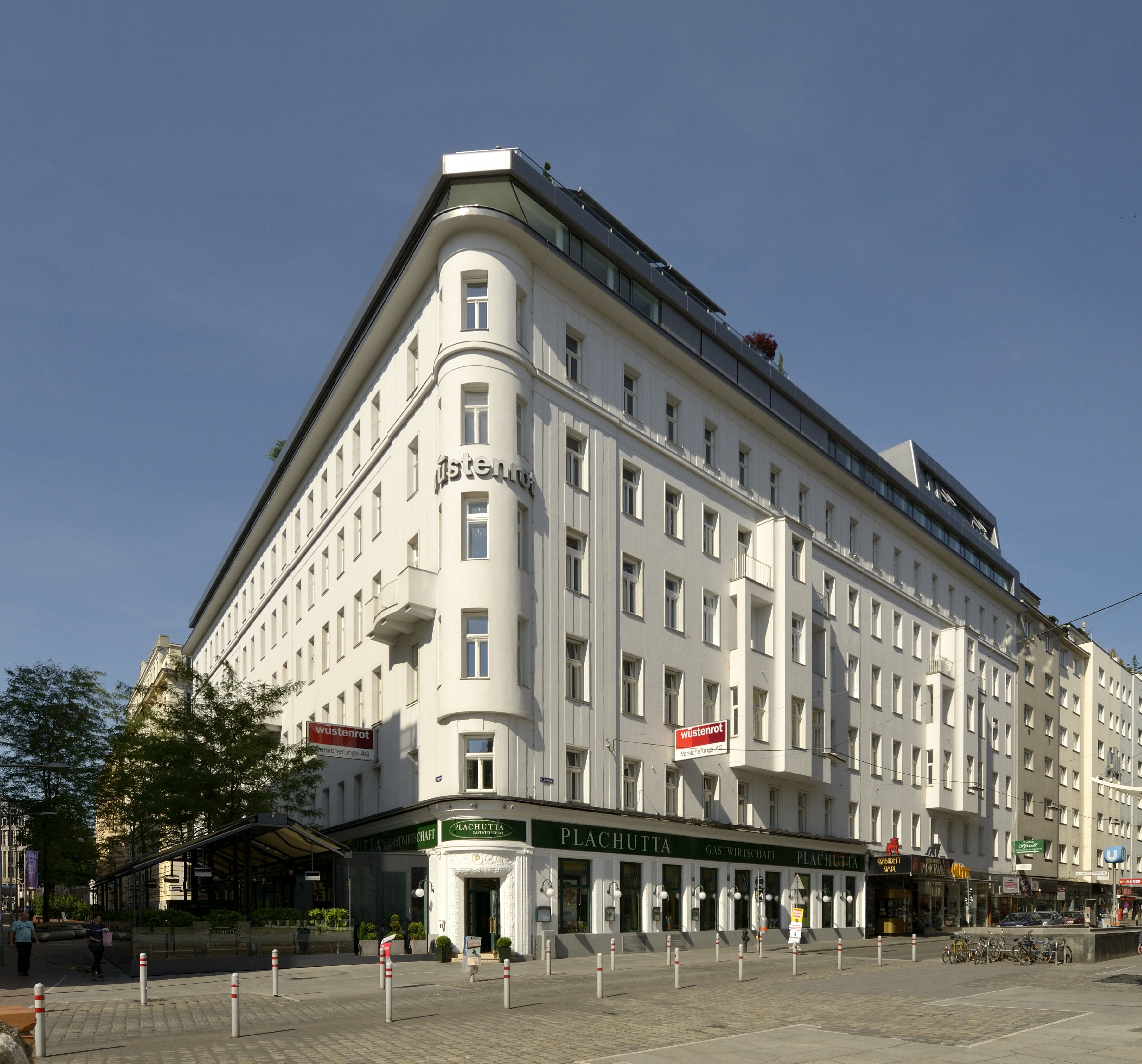 Restaurant Plachutta, Wollzeile, 1st district of Vienna